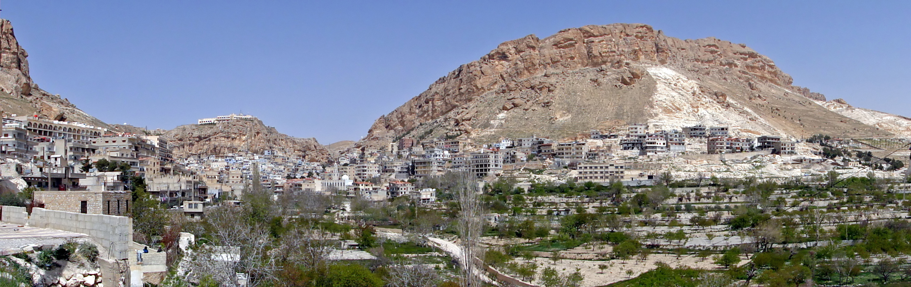 Village of Ma'loula, Syria